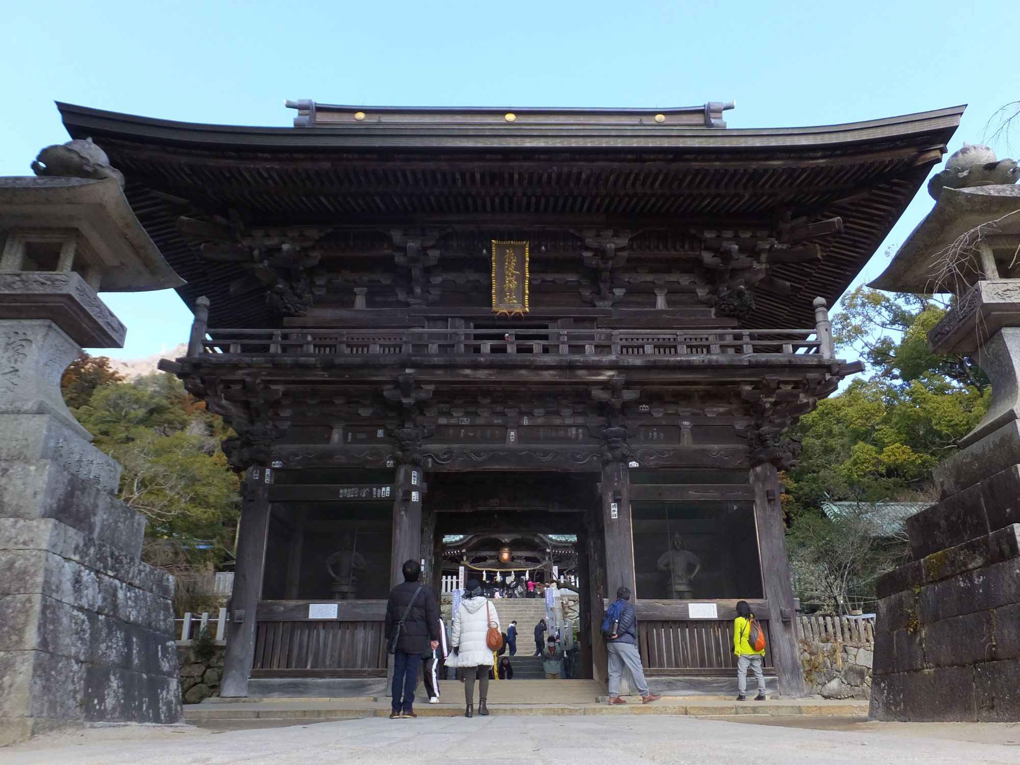 Zuishinmon gate of Tsukubasan shrine in Tsukuba, Ibaraki prefecture